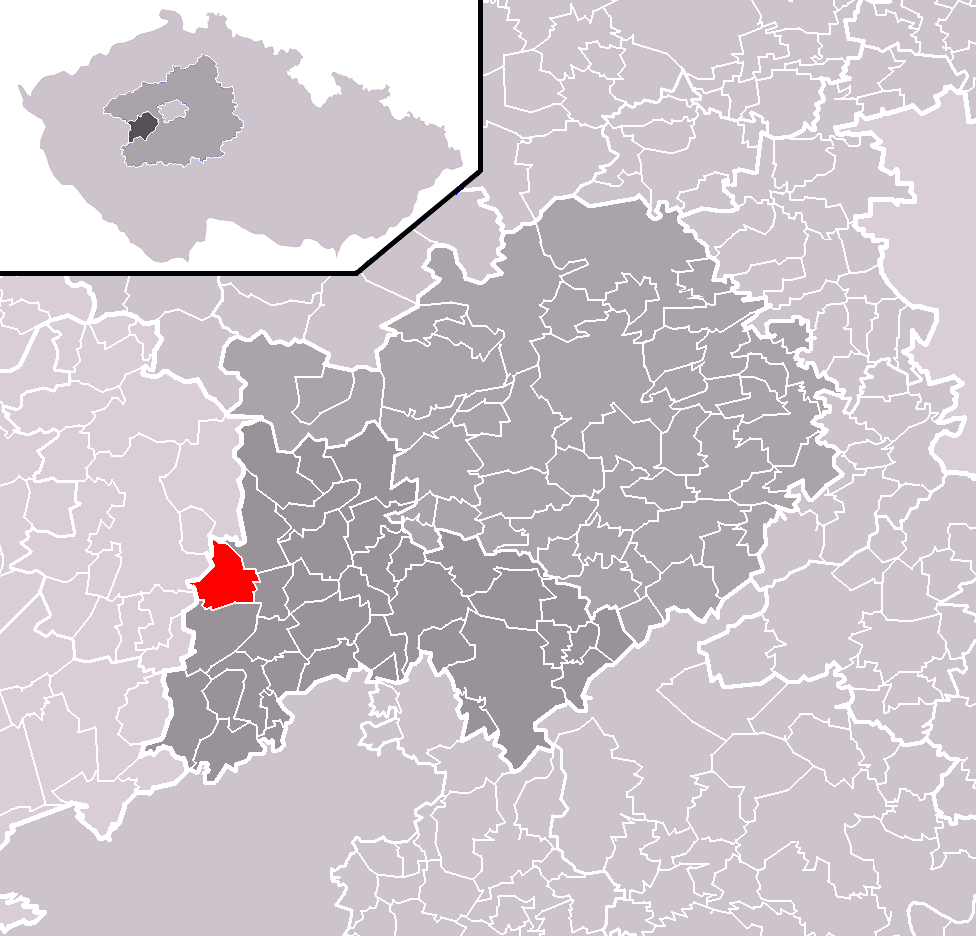 Location of Cerhovice municipality within Beroun District and administrative area of Hořovice as a Municipality with Extended Competence.